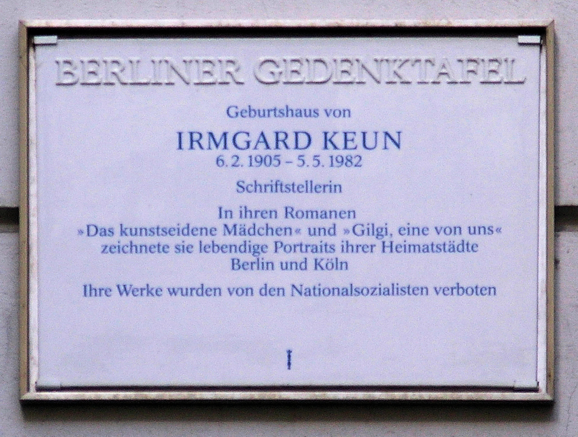 Berlin memorial plaque, Irmgard Keun, Meinekestraße 6, Berlin-Charlottenburg, Germany Koordinate:52°30′8.1″N 13°19′44.5″E / 52.50225°N 13.329028°E